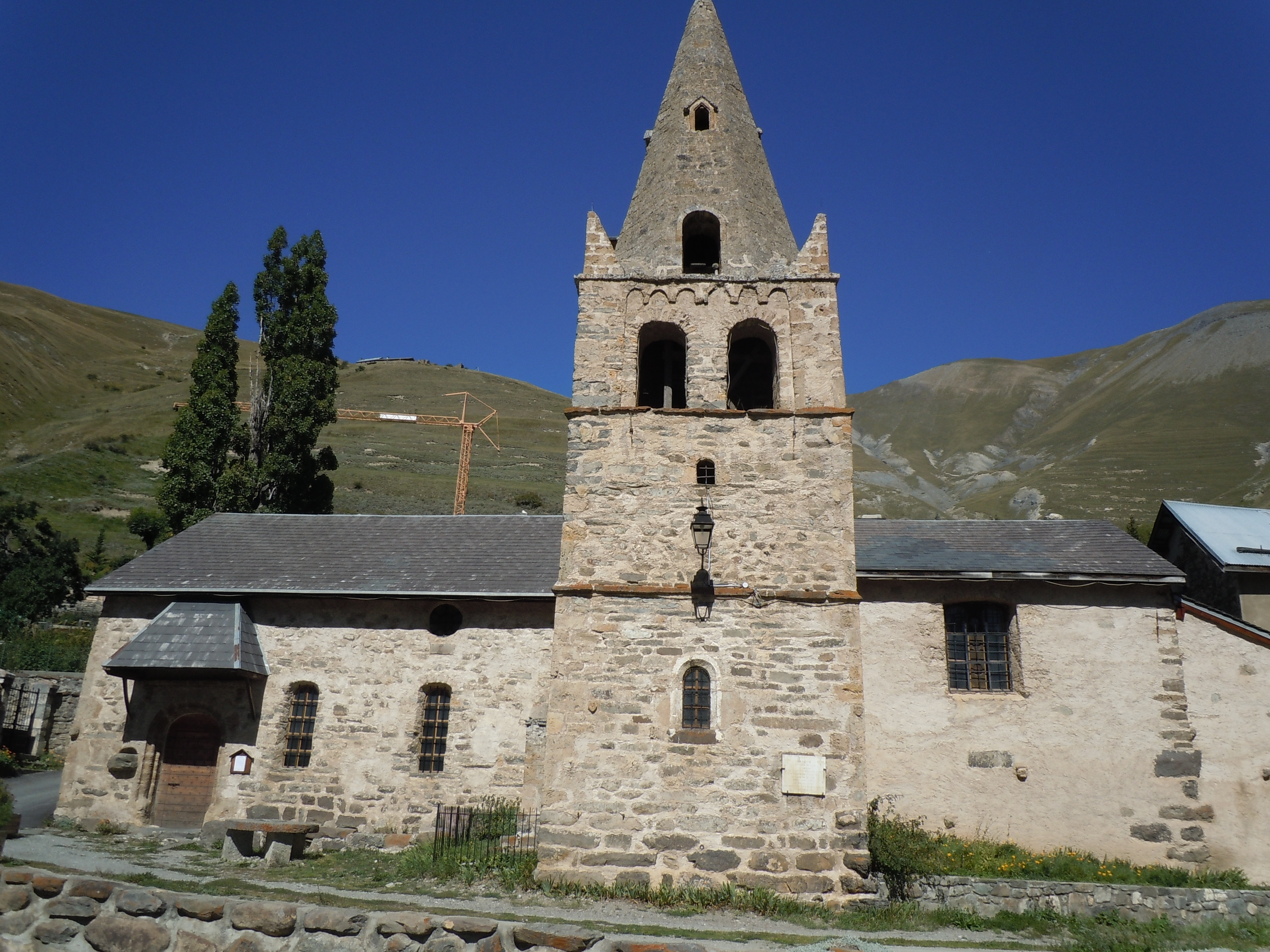 Church "Saint-Pierre et Saint-Paul", in Les Hières (La Grave, Hautes-Alpes, France)